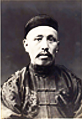 Jia Deyao, premier of Republic of China between Feb.15th 1926 and Mar.4th 1926